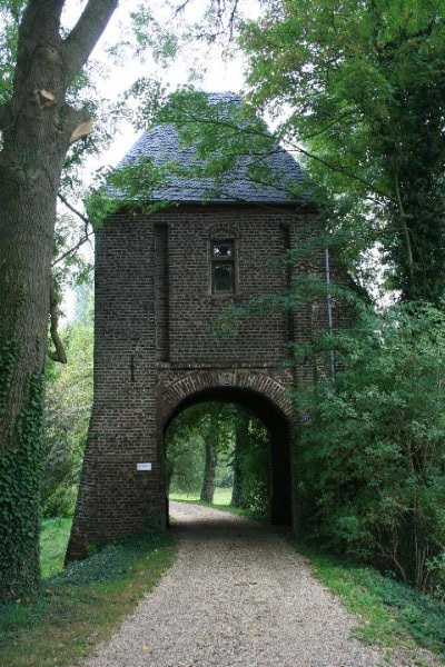 Cultural heritage monument No. 13 in Kempen